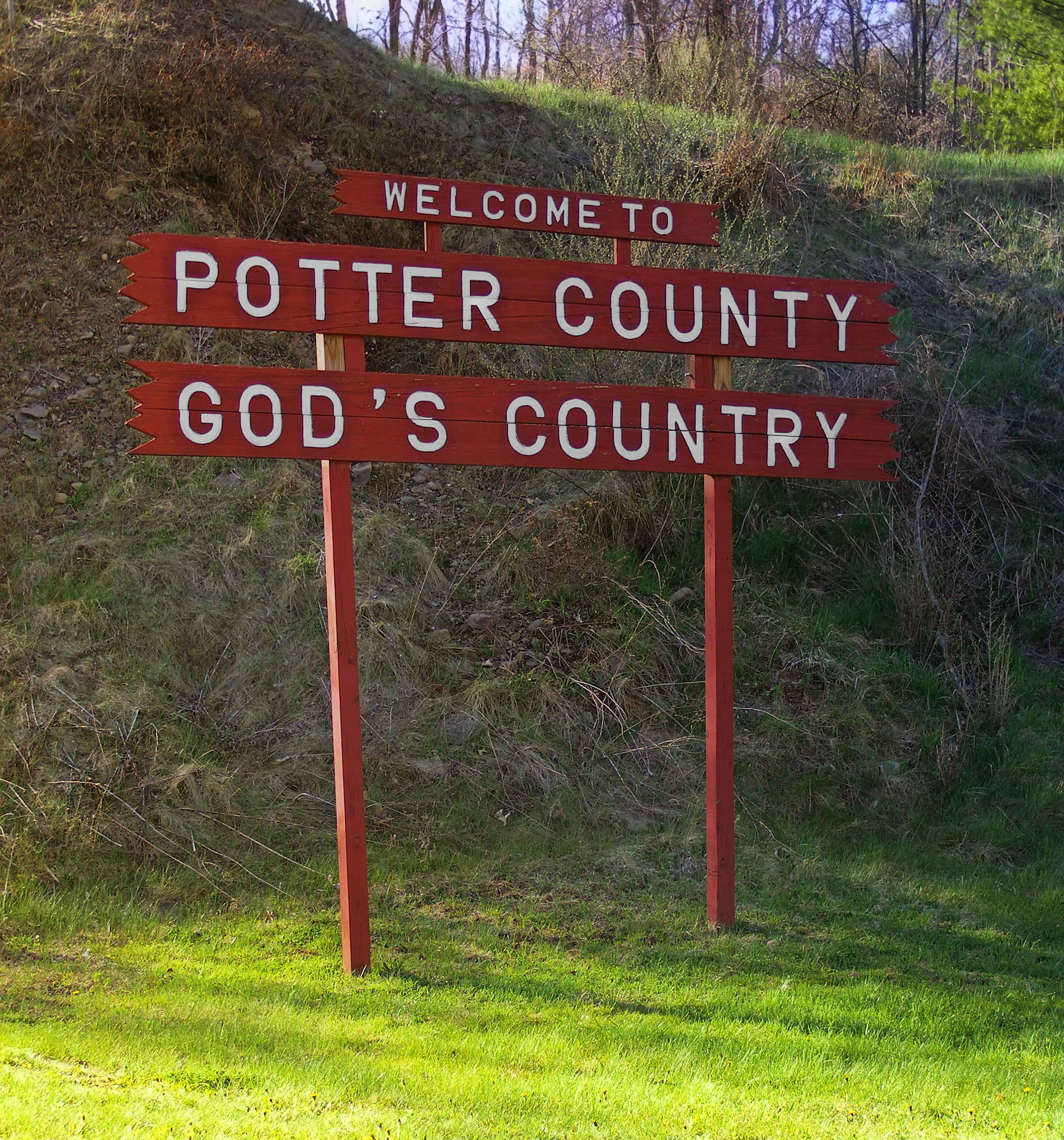 Welcome sign, Potter County, along Route 6 east of Galeton.